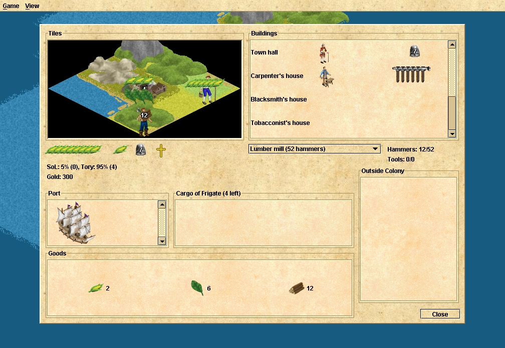 A screenshot of FreeCol depicting its colony menu.